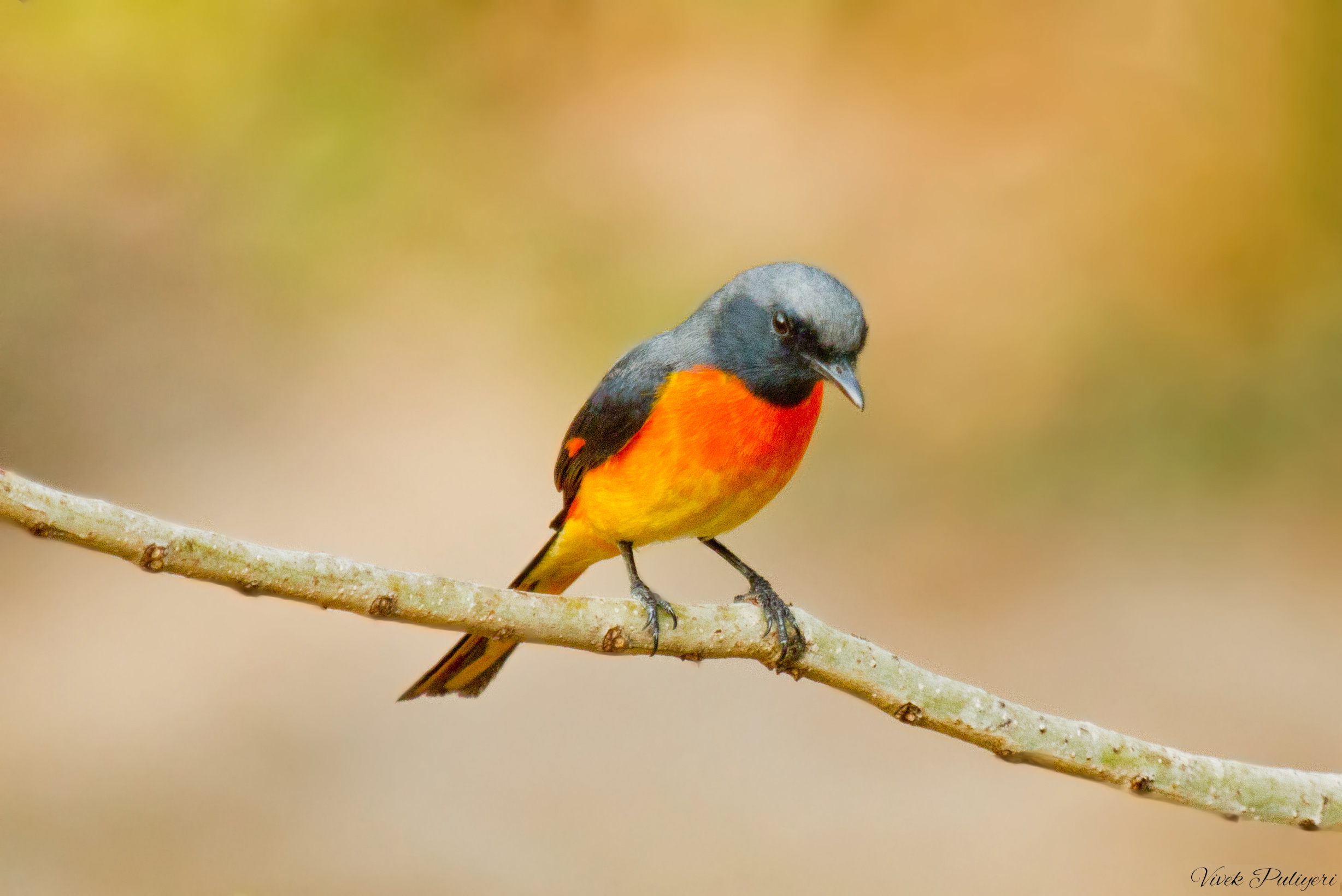 Small Minivet - Pericrocotus cinnamomeus